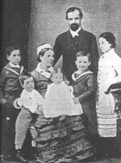 Reverend Thomas Bridges posing for a photograph with his family